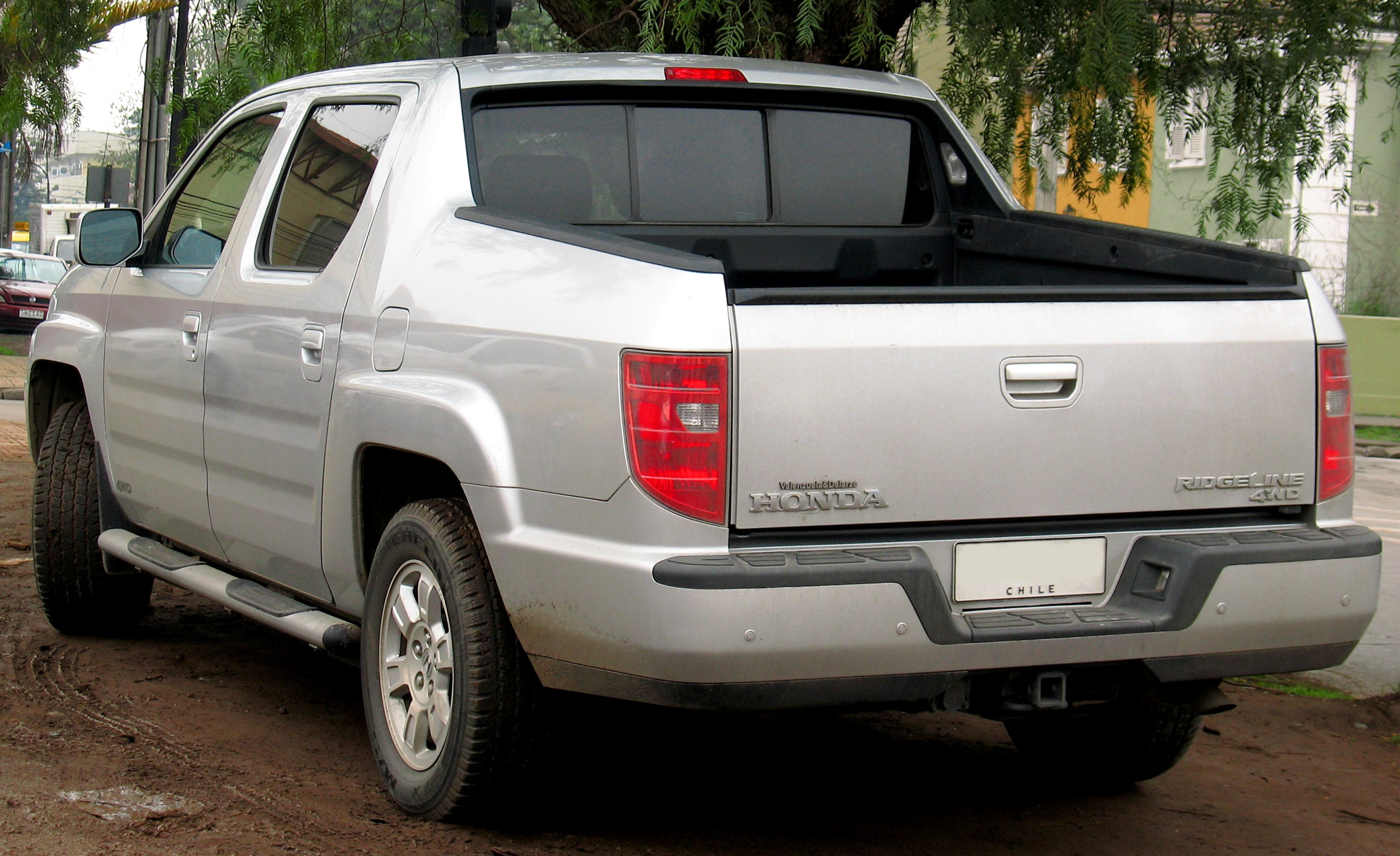 Rear-quarter view of a 2011 Honda Ridgeline RTL from Chile with OEM accessory side-steps and backup sensors